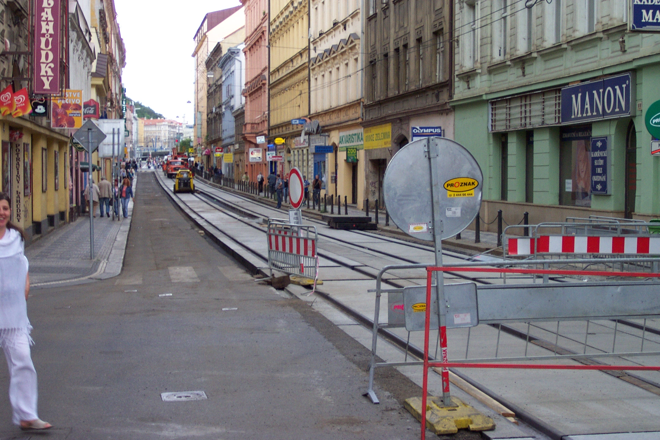 Tram track in Prague-Smíchov (Anděl-Palackého náměstí) during reconstruction